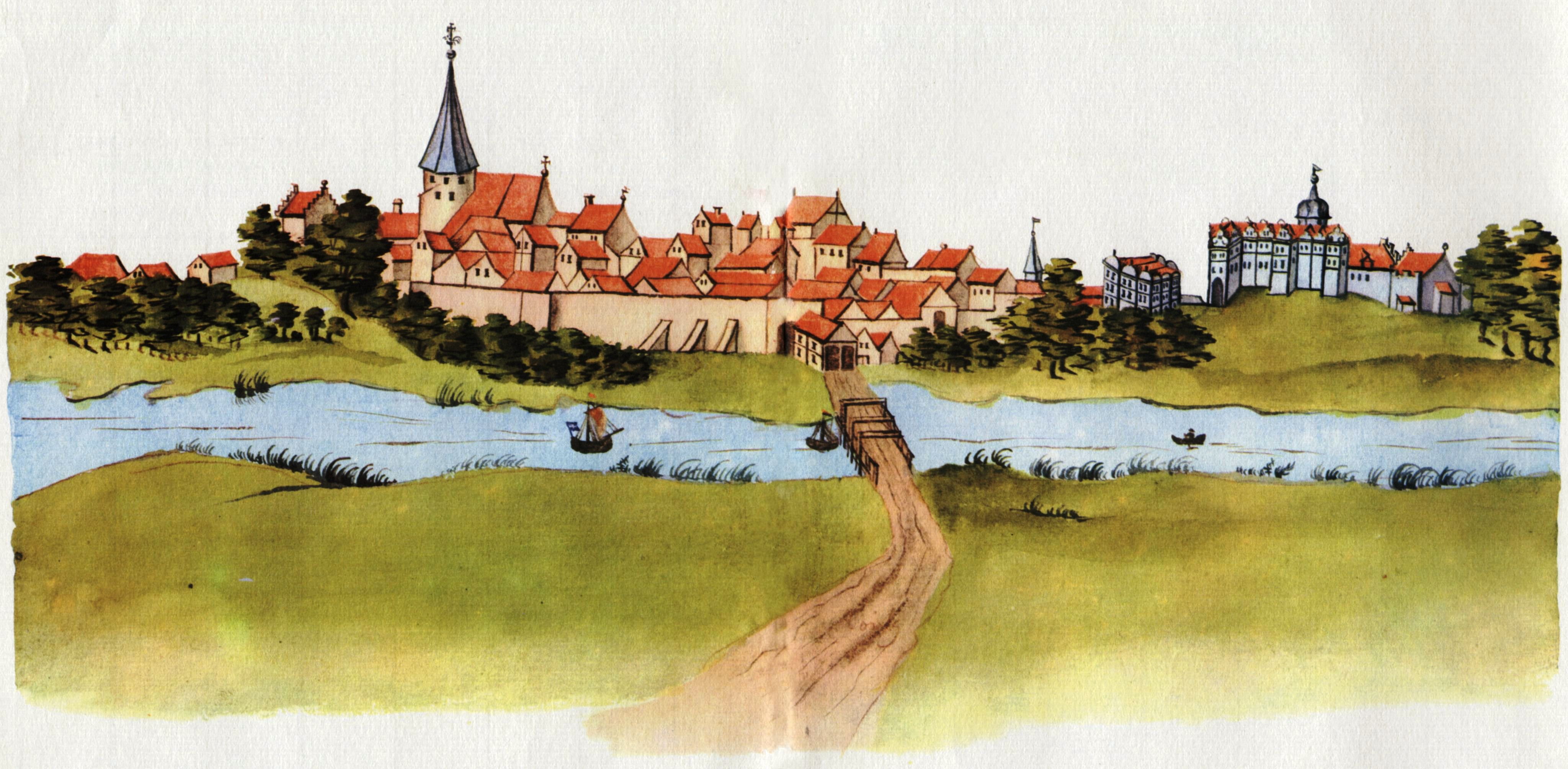 Cityview of Loitz from the "Stralsunder Bilderhandschrift"